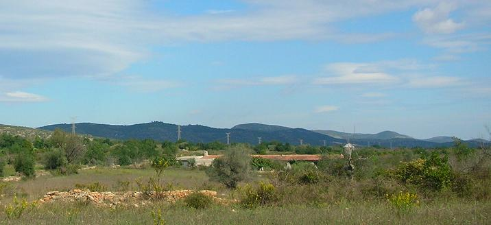 Talaies d'Alcalà mountain chain seen from Alcalà de Xivert